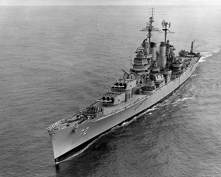 The U.S. Navy heavy cruiser USS Pittsburgh (CA-72) underway on 11 October 1955. She carries SPS-6 radar forward and SPS-8A air search radar aft.